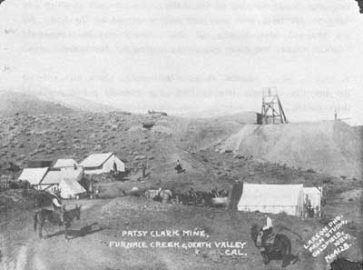 Image of a campsite on Greenwater California.